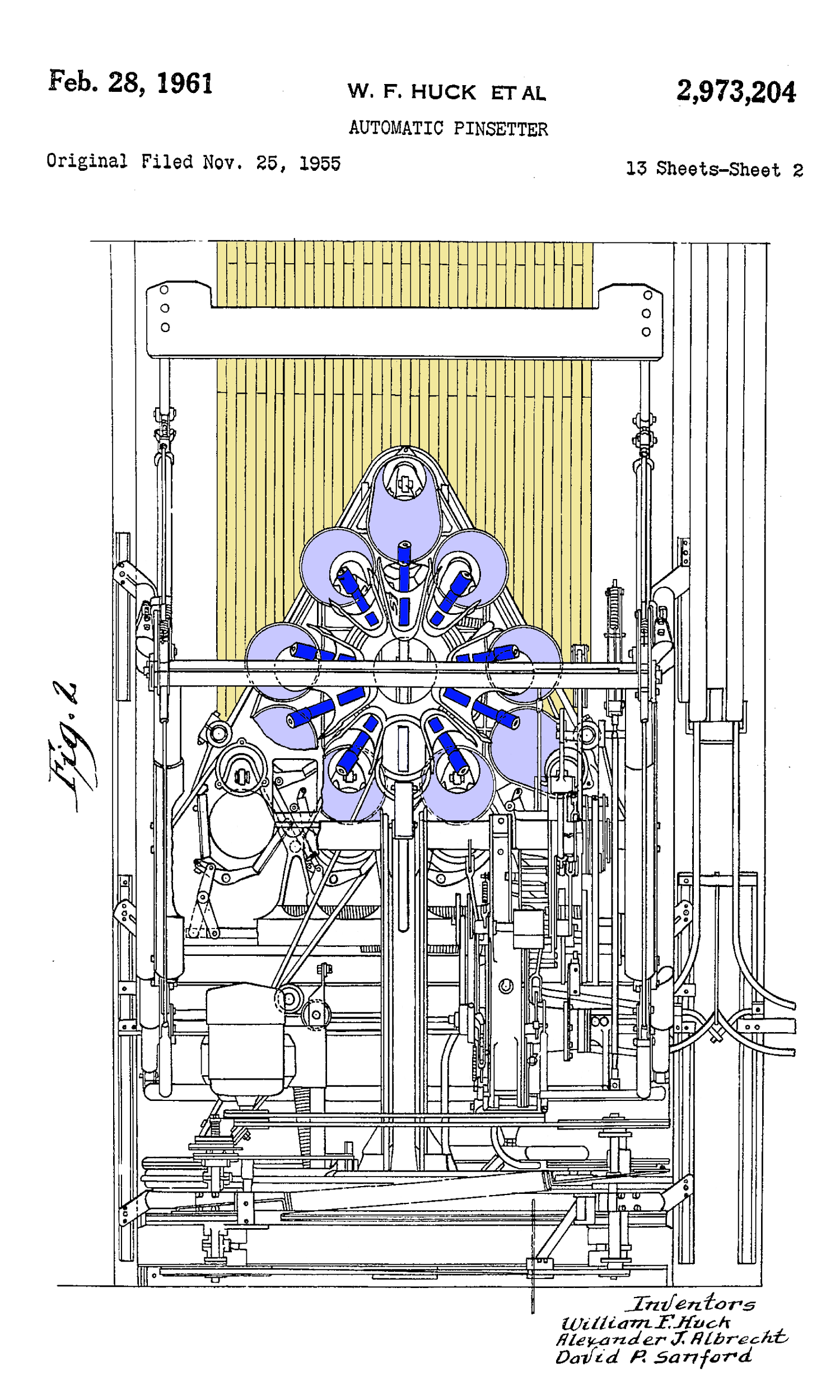 Excerpt from diagram of 2973204 for the pinsetting machine, a device used to automate bowling alleys.